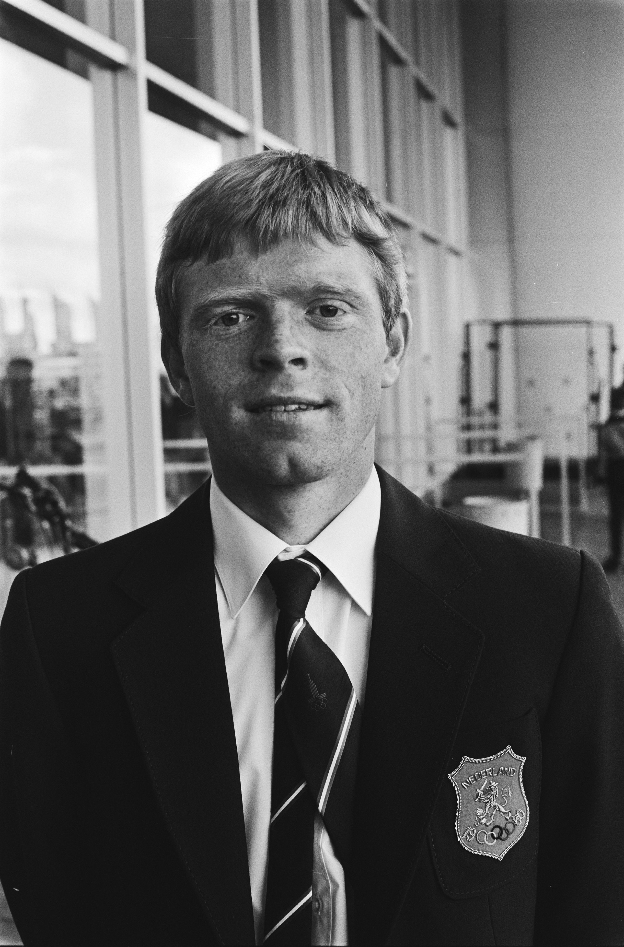 Dutch cyclist Peter Winnen at Schiphol Airport leaving for the Olympic Games in Moscow, 14 July 1980